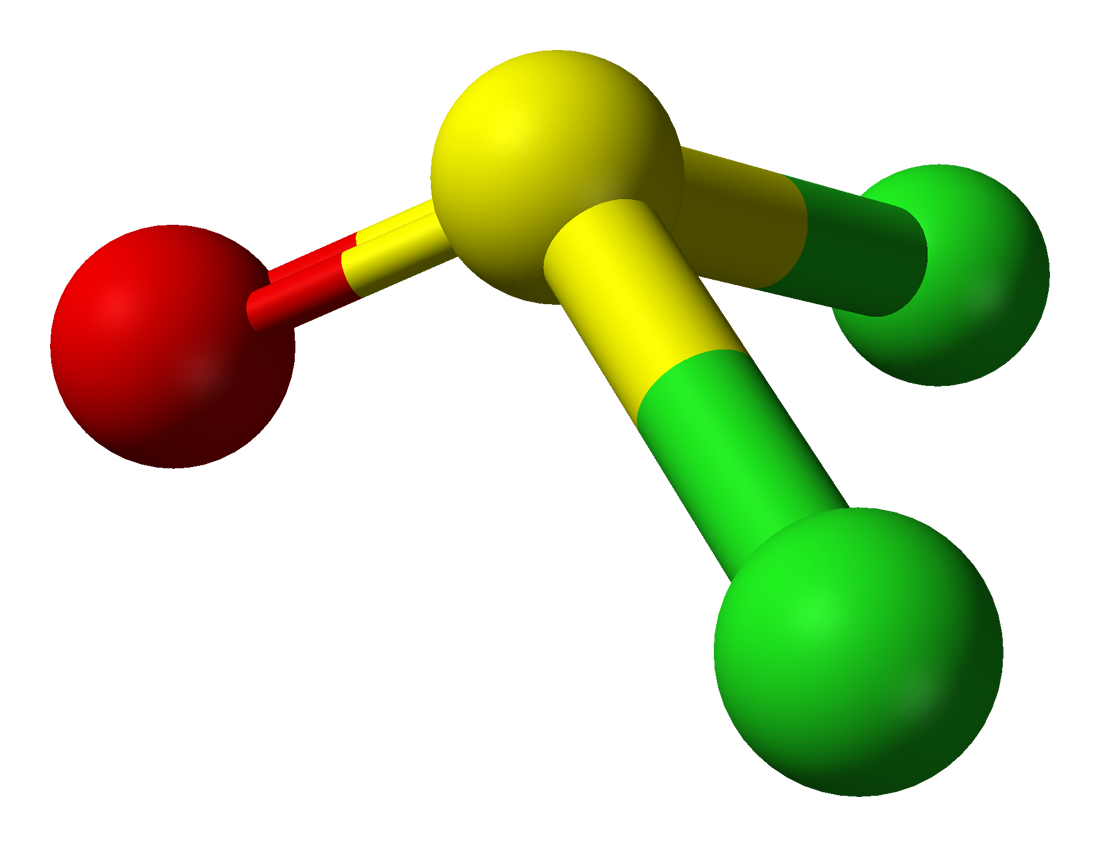 Ball-and-stick model of the thionyl chloride molecule, SOCl2, in the solid state, determined by single crystal X-ray diffraction. X-ray crystallographic data from Acta Cryst. (1988). C44, 926-927.